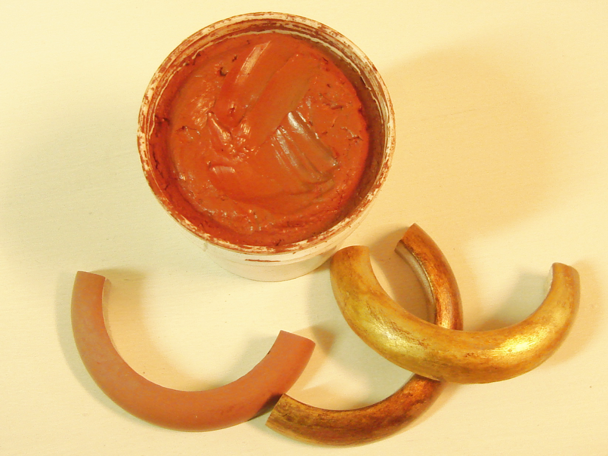 Armenian bolus application-ready